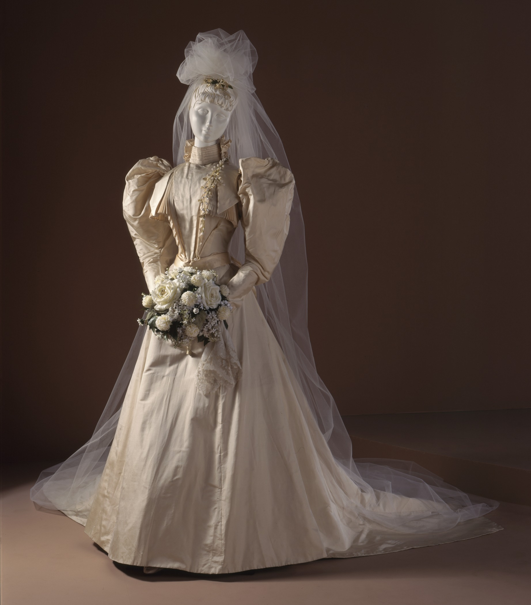 United States, 1891 Costumes; ensembles Silk faille lined with cambric Gift of Mrs. Charles A. Rook III (M.70.90a-b) Costume and Textiles